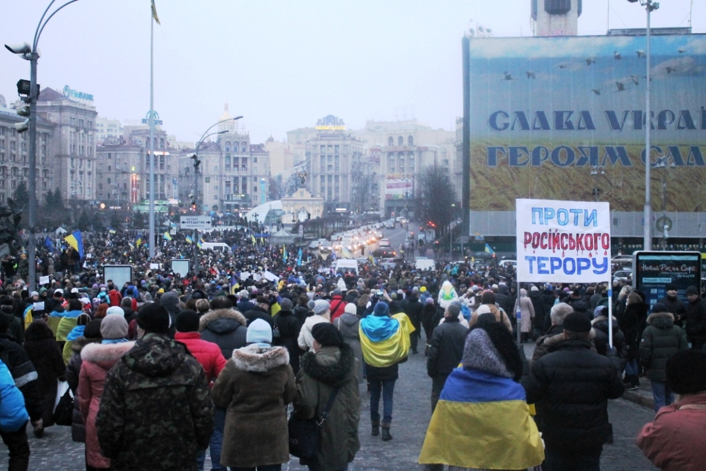 Kyiv. Peace march in memory of victims of the Donetsk People's Republic terrorists near Volnovakha. 18 january 2015